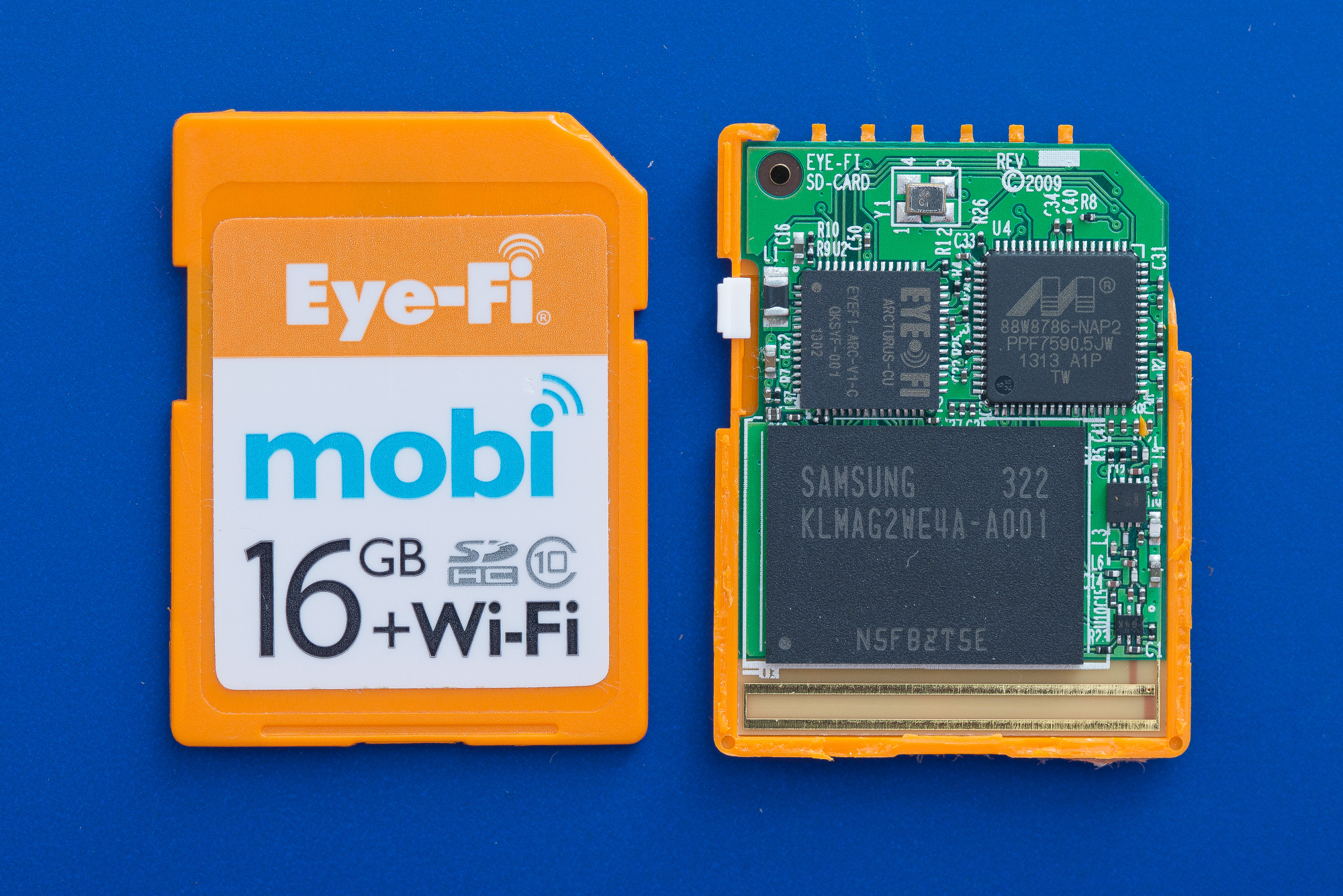 Eye-Fi Mobi 16Gb Wifi SD Card Inside